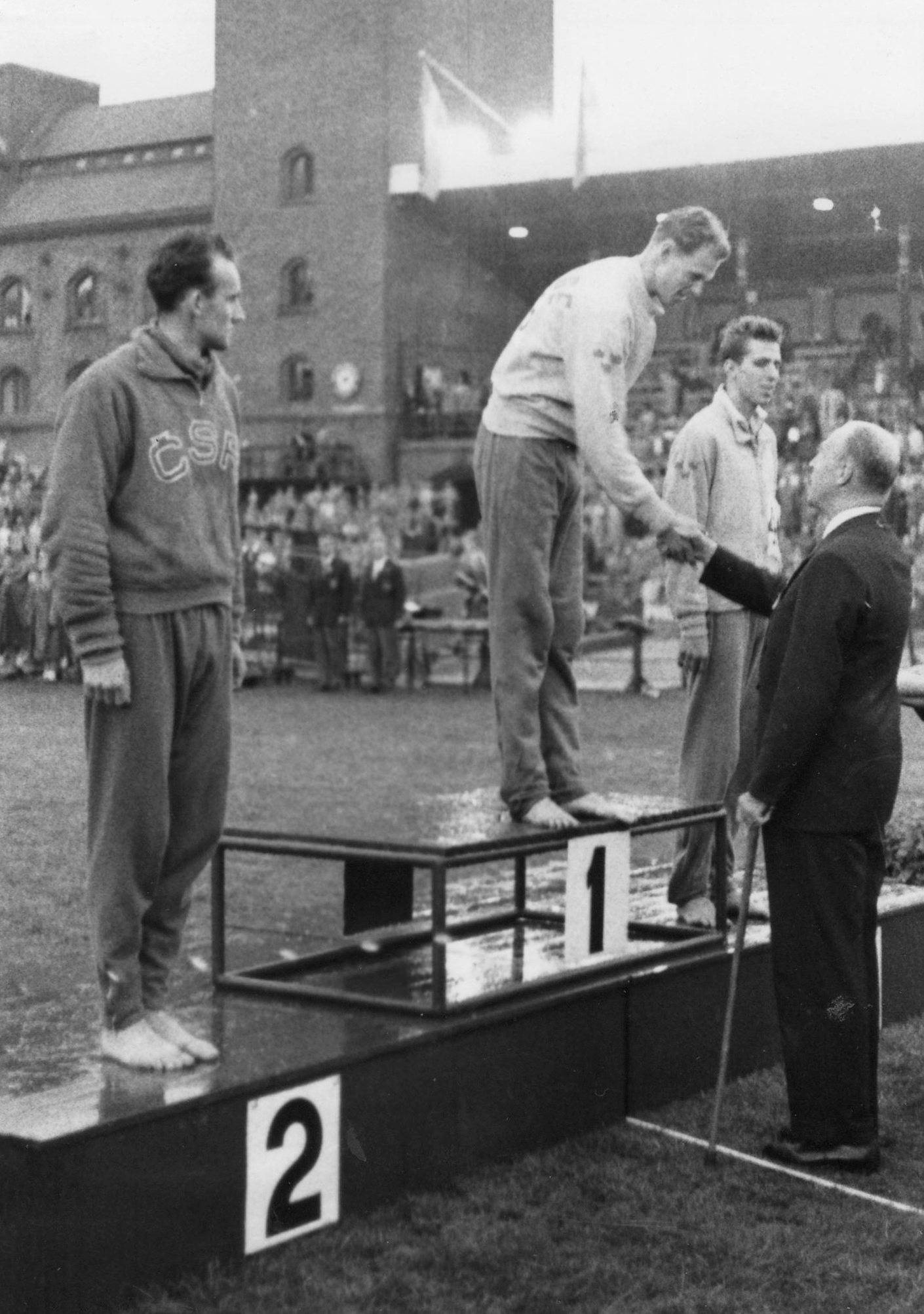 Left-right: Jiří Lanský, Richard Dahl, Stig Pettersson at the 1958 European Championships in Stockholm